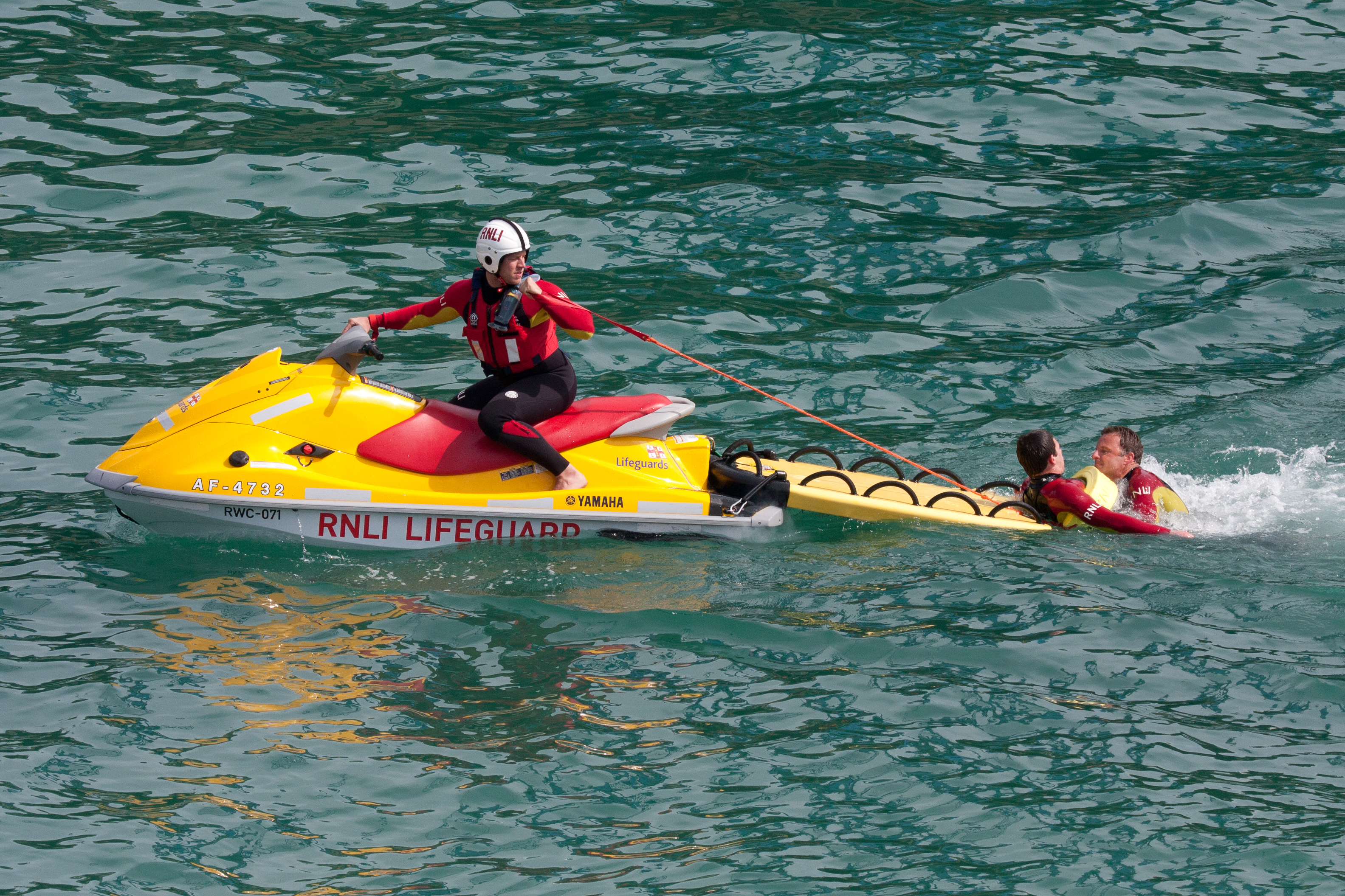 RNLI Lifeguards demonstrate recovery of an unconscious person from the water using a Yamaha Wave Runner PWC.